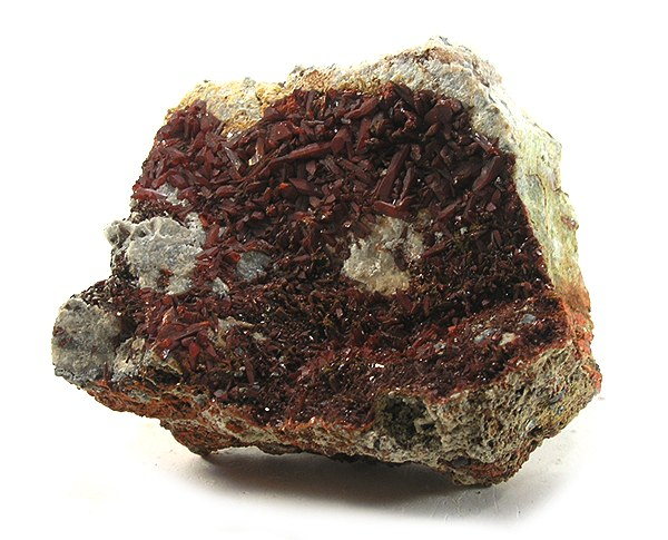 Crocoite Locality: Callenberg, Glauchau, Saxony, Germany (Locality at ) Size: cabinet, 10.5 x 9 x 3.8 cm Crocoite This is an extremely important specimen for several reasons. Firstly, it is pretty and rich with beautiful, sharply terminated, red crocoites to 1.3 cm. These have a form distinct from crocoite from any other more well-known modern locality. THIS locality, though, is not modern - pieces date back 125 years old or more, although admittedly there was a small find in the early 1970s of more specimen material here and its hard to say which this came from. Moreover, it is the largest and one of the best I know of that has been available, a statement backed up by comments form several longtime german locality collectors. These are true historical treasures all, that are so seldom seen most of us know them only from seeing pictures in reproductions of the old scientific books from the 1800s. I have certainly not seen anything of this magnitude for sale, in any case.